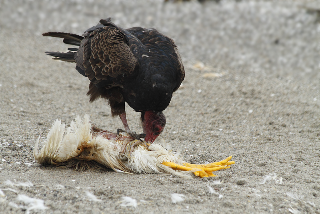 A Turkey Vulture eating a dead bird in California, USA.